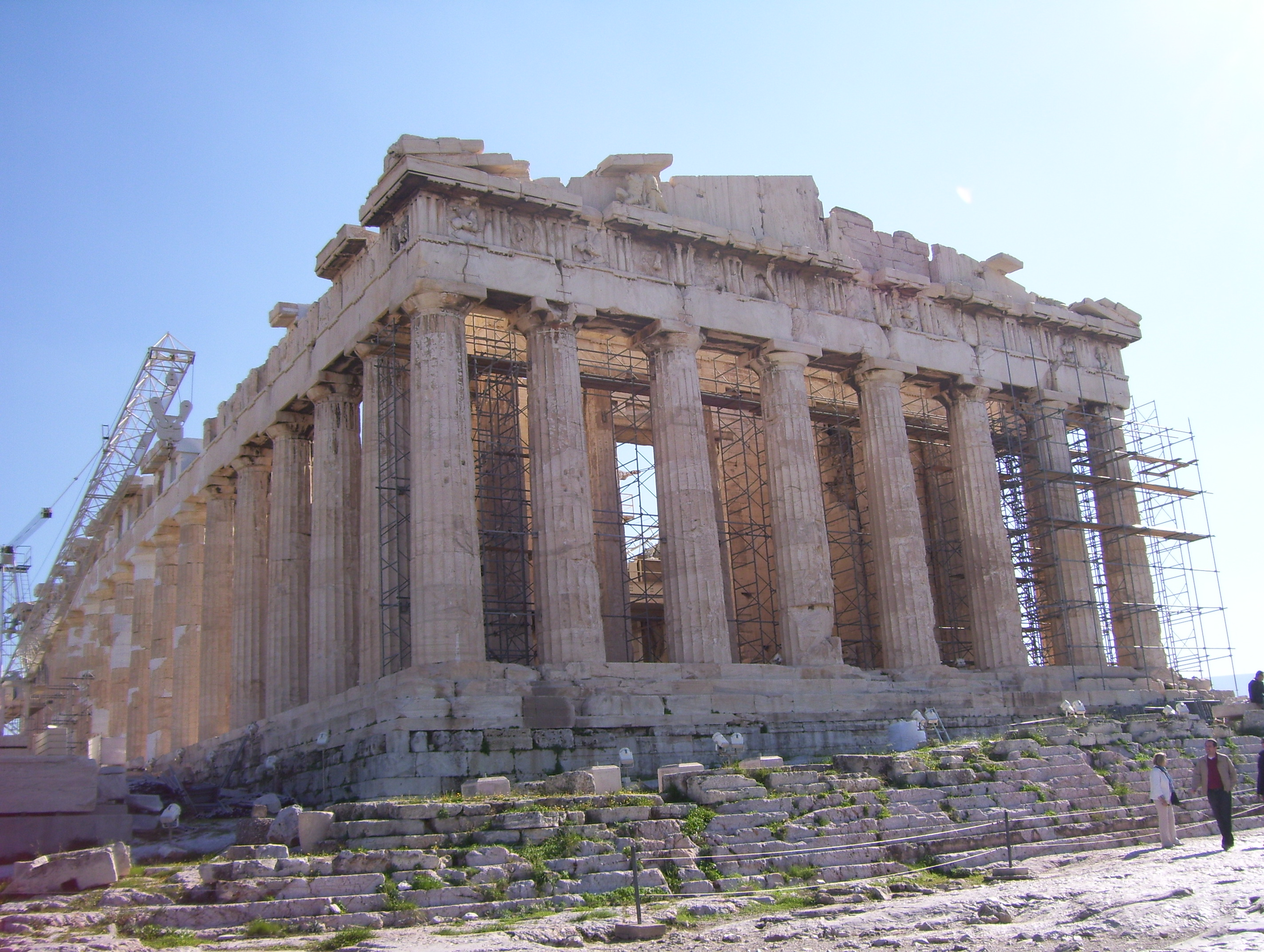 Photograph of the Parthenon, Greece.